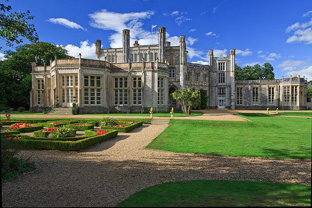 Highcliffe Castle